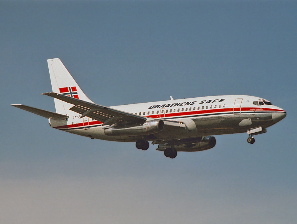 Braathens SAFE Boeing 737-205/Adv LN-SUT at Faro Airport